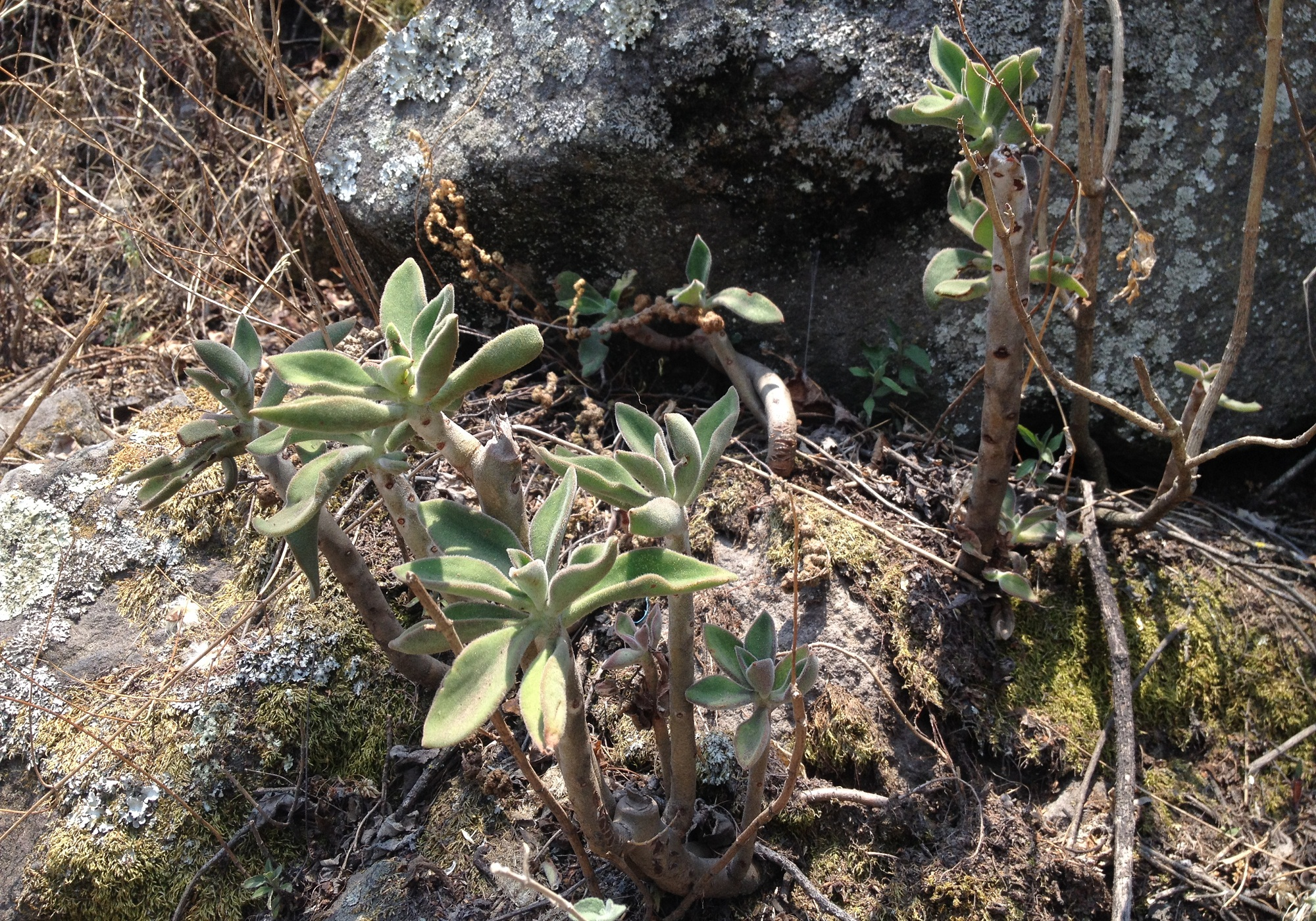 Echeveria coccinea is a succulent plant in the stonecrop family (Crassulaceae). It florishes on the lava flows of the Trans-Mexican Volcanic Belt.